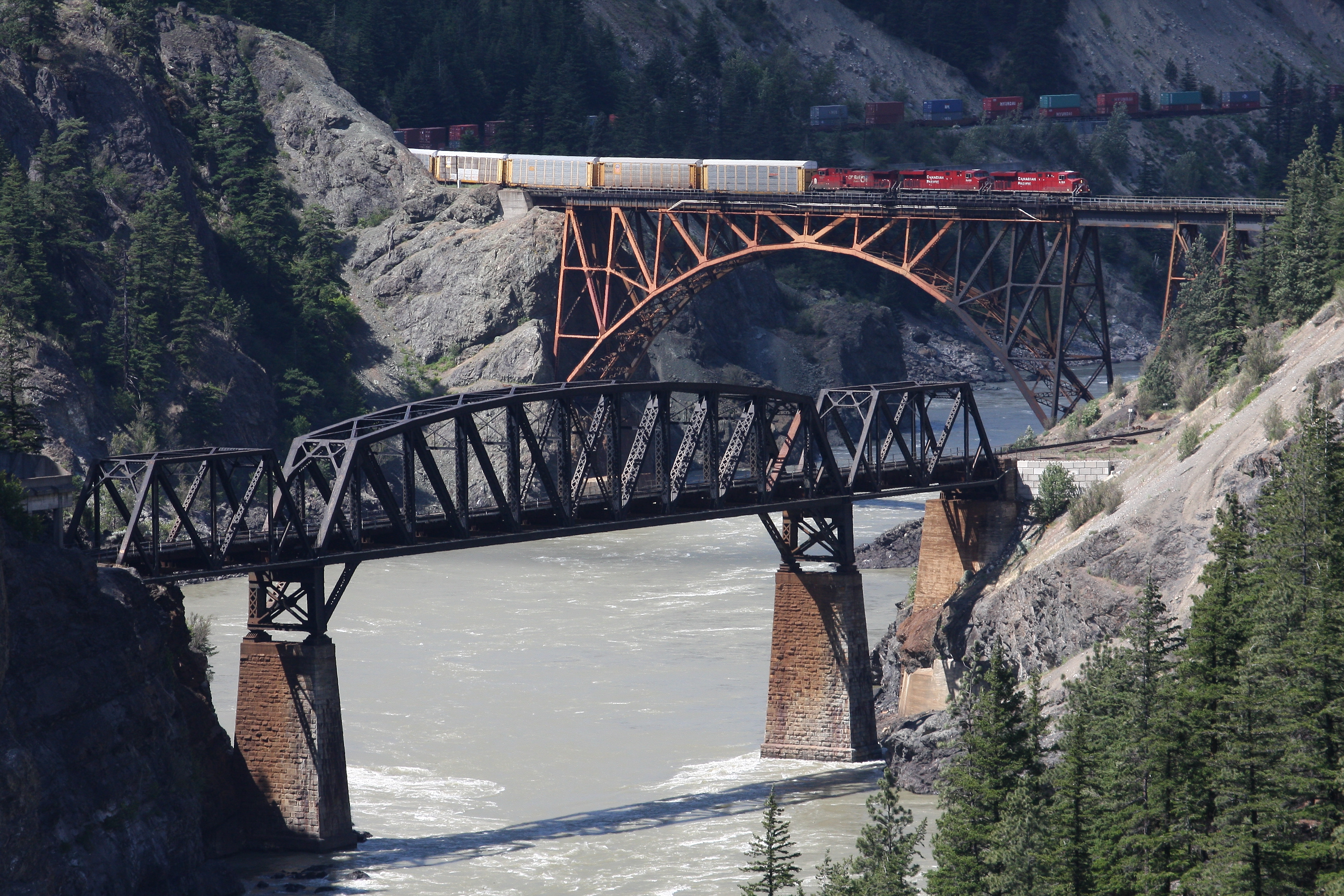 Canadian Pacific Railway train crossing Fraser River southbound on Canadian National Railway Cisco truss arch bridge at Siska, British Columbia (2010-Jun-13). Canadian Pacific 3-span truss bridge visible in foreground